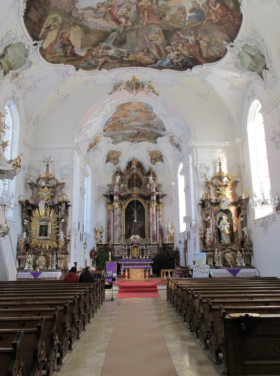 Monastery Wessobrunn, church St. Johann Baptist